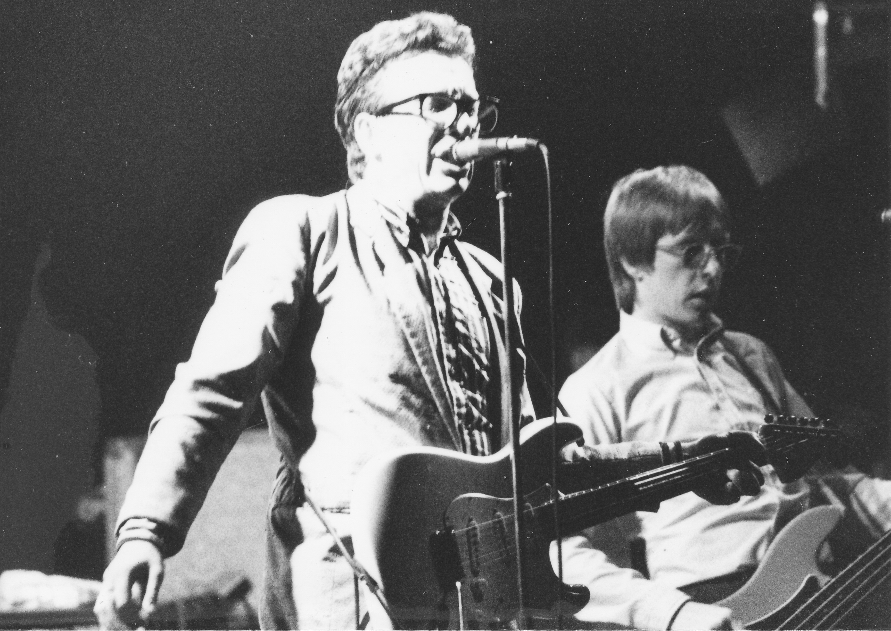 Elvis Costello Metropol-Theater, Berlin